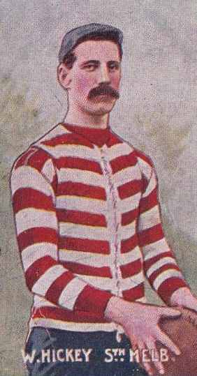 Cigarette card of Bill Hickey from the Sniders & Abrahams 1906 series